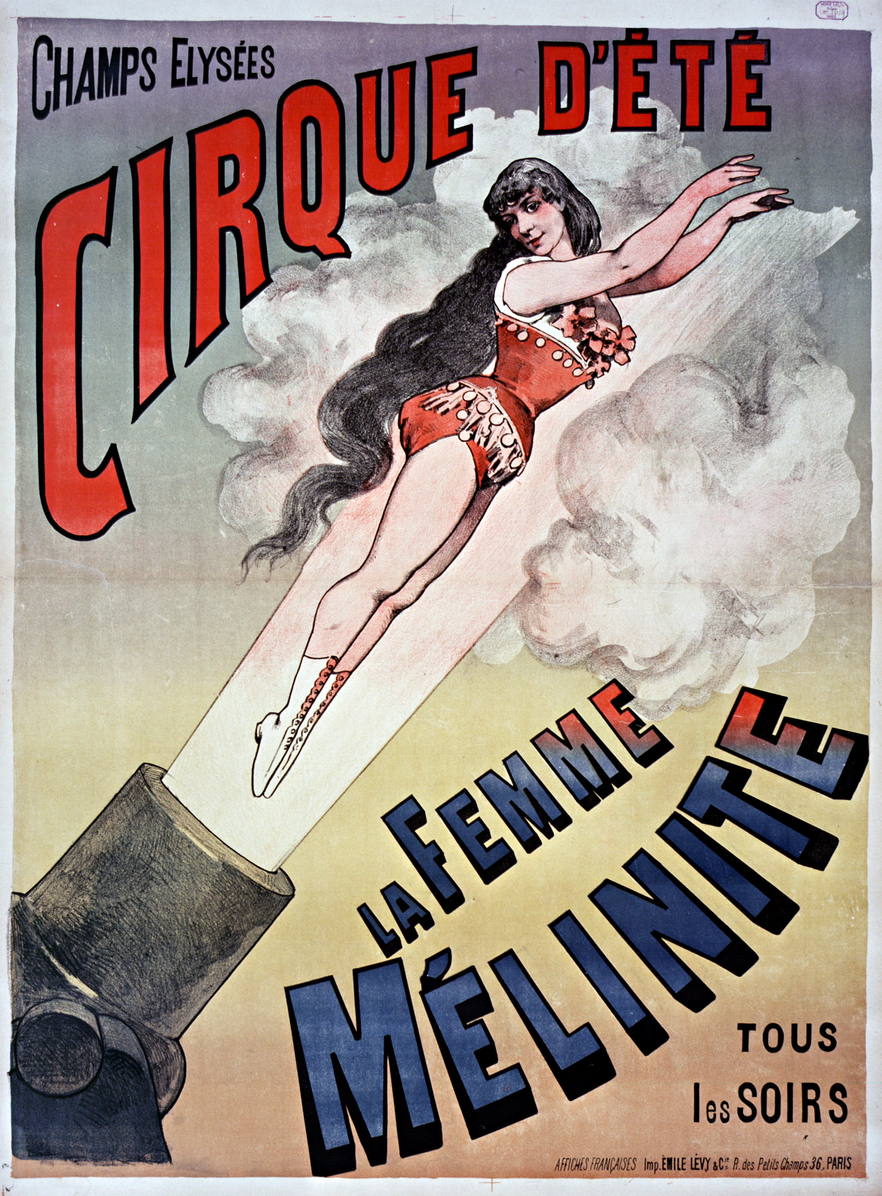 Poster for "La femme Mélinite" at the Cirque d'été (1887) 122 x 96 cm